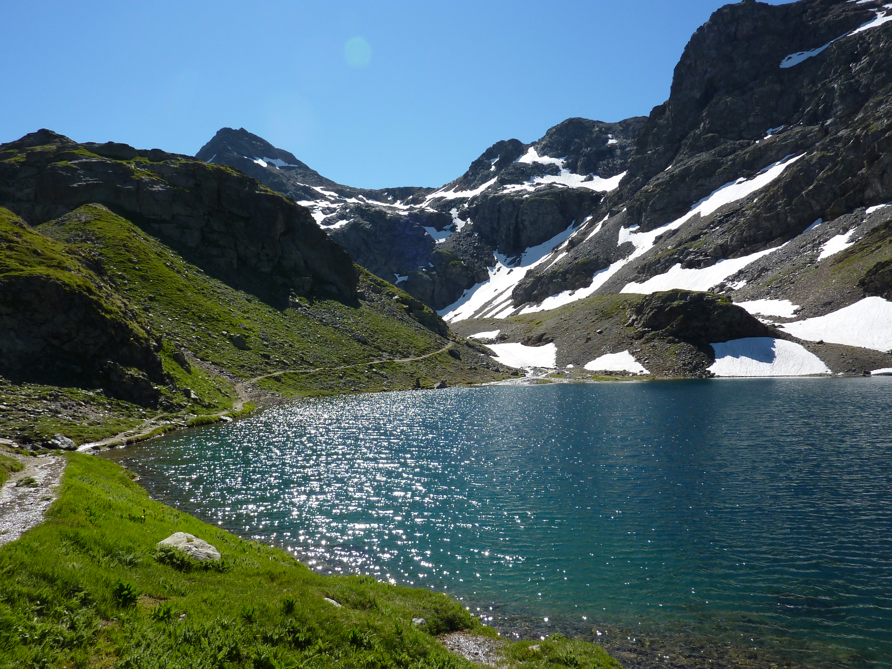 The lac du Petit Domènon in the Belledonne moutains, Isère, France